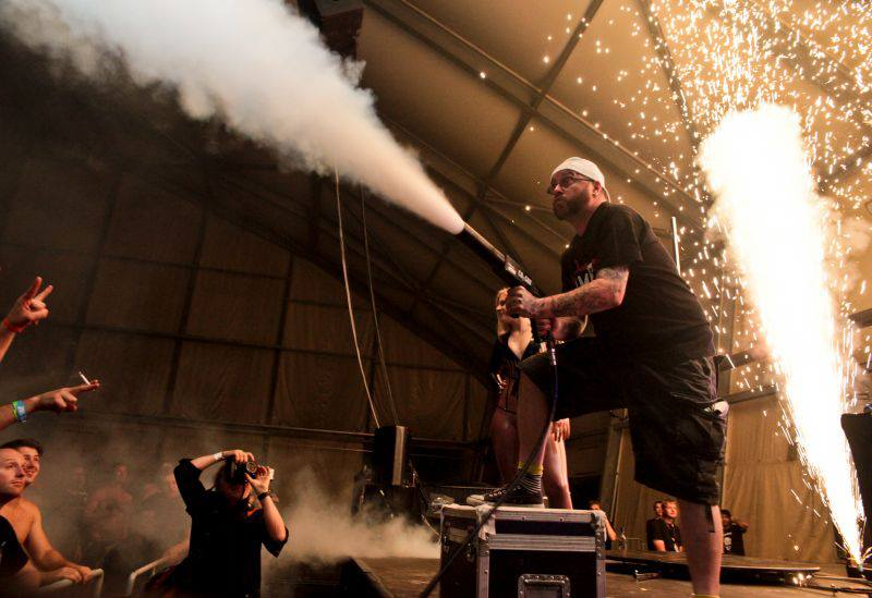 Rokko Ramirez with Pyrotechnics